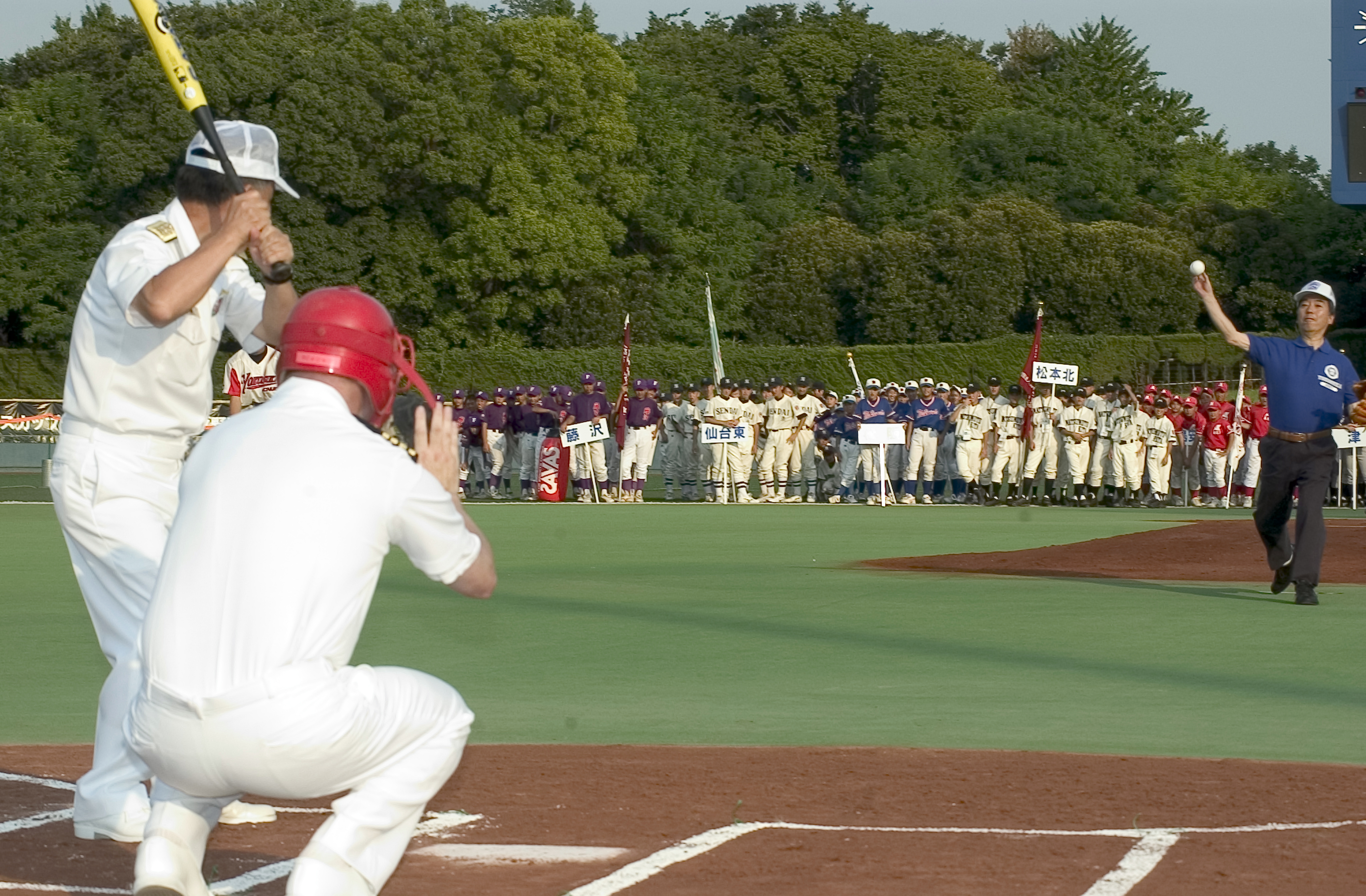 YOKOSUKA, Japan (Aug. 17, 2007) - Ryoichi Kabaya, the Mayor of Yokosuka City, throws the opening pitch to Capt. Daniel Weed, commander of Fleet Activities Yokosuka, hoping to get one past Japan Maritime Self Defense Force Rear Adm. Isamu Ozawa, during the opening ceremonies of Japan's Little League Championships. The winner of Japan's Little League Championships will move on to the 2007 Little League World Series competition in Williamsport, Pa. U.S. Navy photo by Mass Communication Specialist 2nd Class Barry R. Hirayama (RELEASED)